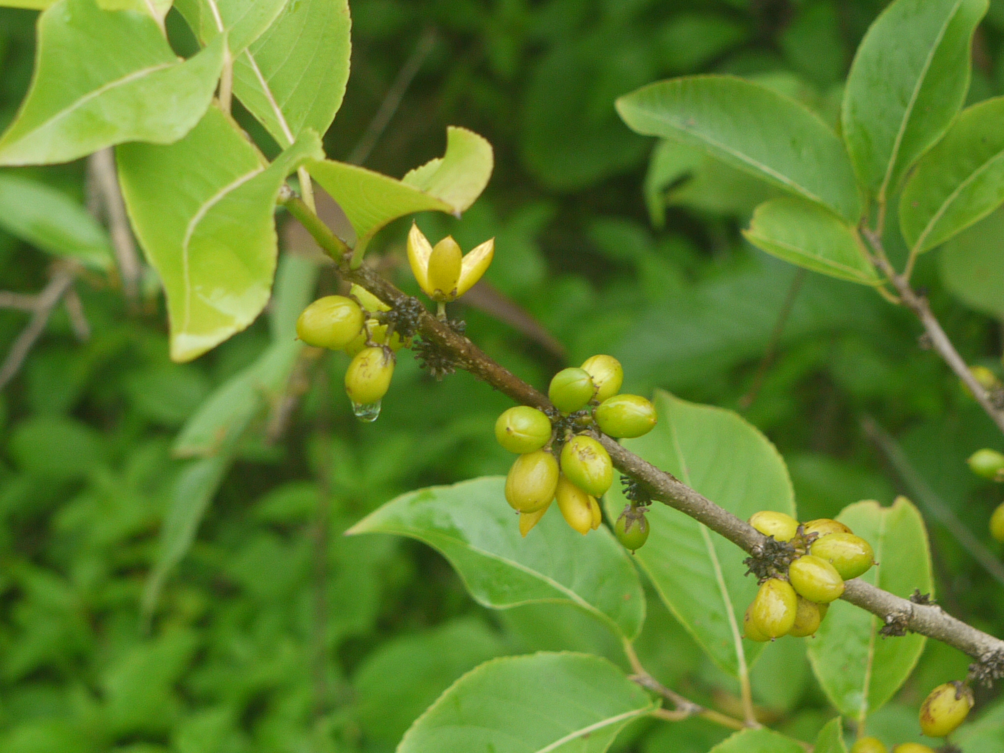 Flacourtiaceae (coffee plum family) » Casearia graveolens ¿ kay-SIR-ee-uh ? -- named for Johannes Casearius, minister of the Dutch East India Co. grav-ee-OH-lens -- heavy scented, unpleasant smell commonly known as: chilla • Gujarati: કીરામ્બીરા kirambira • Hindi: छिल्ला chilla, गिलची gilchi • Konkani: पिंपरी pimpari • Marathi: बोखाडा bokhada • Nepalese: sano dedri • Oriya: mando Native of:India, s China, Bangladesh, Bhutan, Nepal, Indo-China References: Flowers of India • eFlora • NPGS / GRIN • DDSA